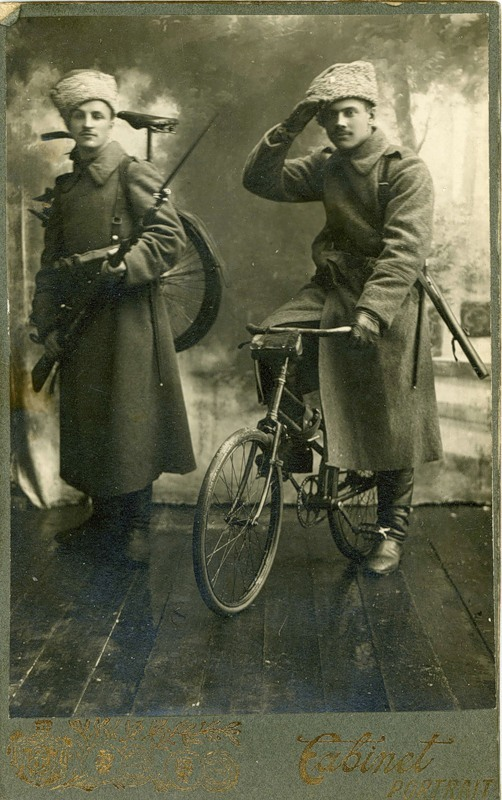 Soldiers of a bicicle unit with overcoats and papkhas, Russian Army 1910-1916.